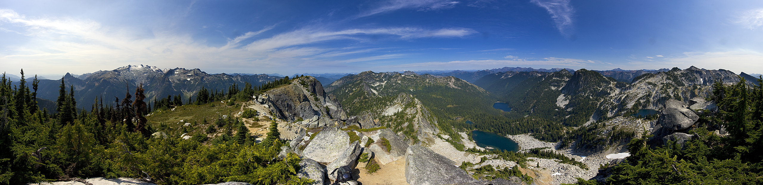 View very big. Taken on a trip to the Robin Lakes Area, Alpine Lakes Wilderness, Washington in August 2009.